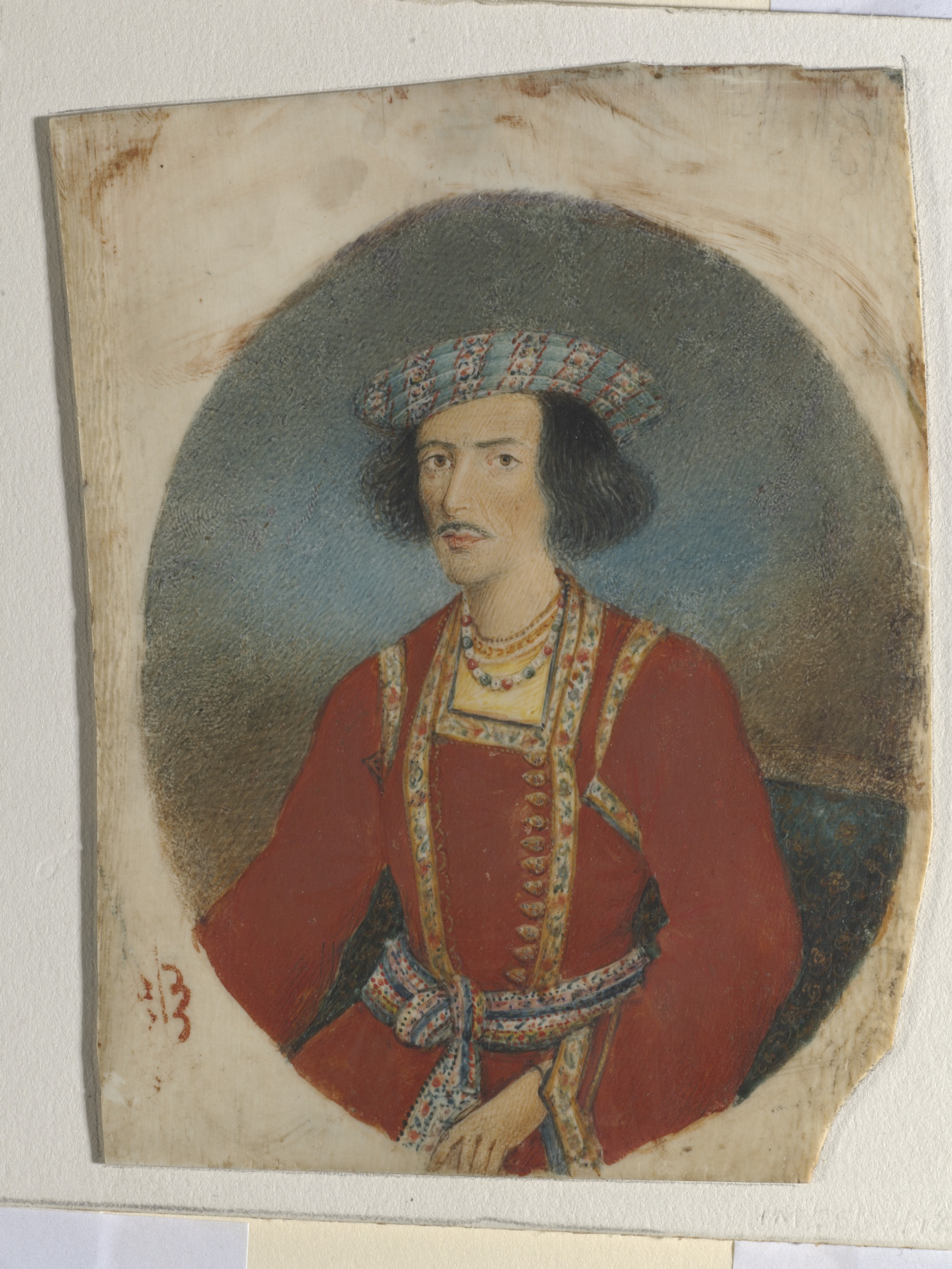 This Company Painting (a painting made by an Indian artist for the British in India) is a portrait of the Hindu reformer Raja Ram Mohan Roy (1772-1833). He came from a distinguished Brahmin family in Bengal. He entered the service of the East India Company and rose to high office, but eventually left to devote his time to the service of his people. Profoundly influenced by European liberalism, Ram Mohan came to the conclusion that Hinduism needed to be radically reformed. He preached equality for women and was active in the abolition of sati (widow burning). Ram Mohan came to England in 1831 as the ambassador of the Mughal emperor Akbar Shah II. On another visit to England he was taken ill with meningitis. He died on 27 September 1833 in Bristol, where he is buried. A statue of him was unveiled there in 1997. Sir Robert Nathan, who bequeathed the portrait to the V&A, probably purchased it from Muhammad Hussain, a judge of the Small Cause Court in Delhi. Nathan was Private Secretary to the Viceroy in Delhi in 1904-1905.